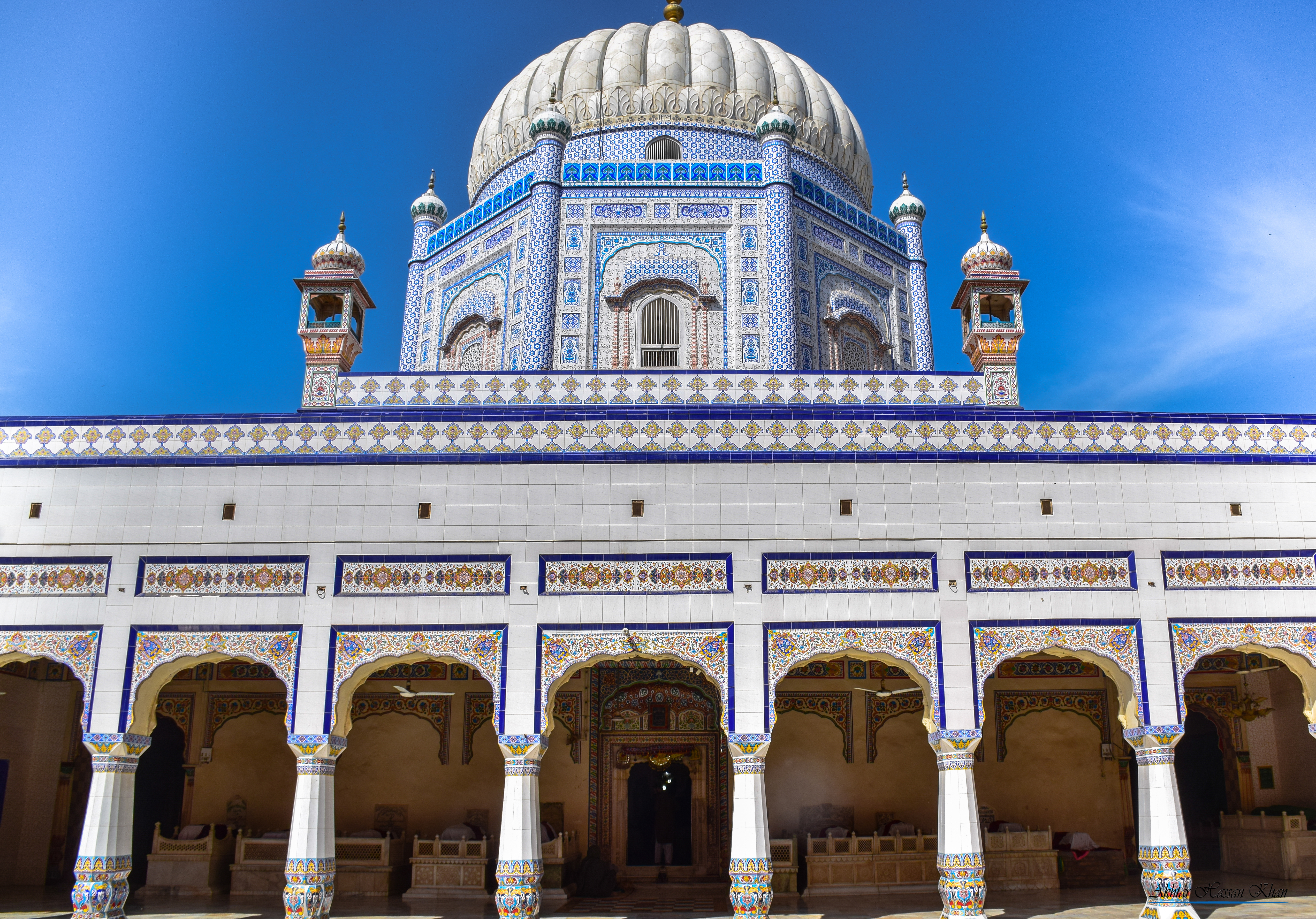 taunsa sharif darbar